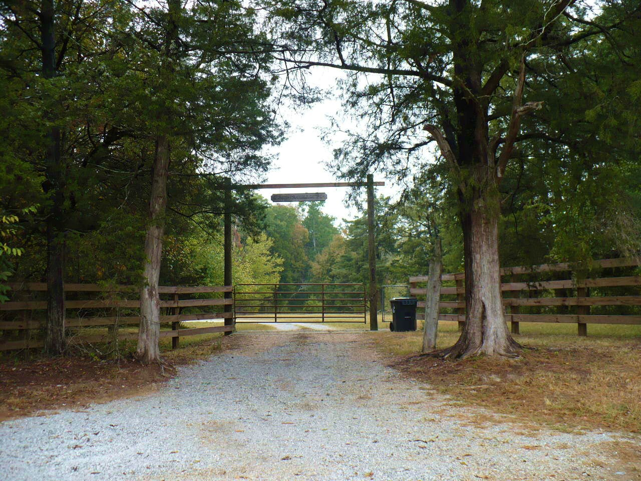 The entrance gate to Cuba Plantation, near Faunsdale, Alabama, United States. The plantation house was built in 1850 and added to the National Register of Historic Places on July 13, 1993.